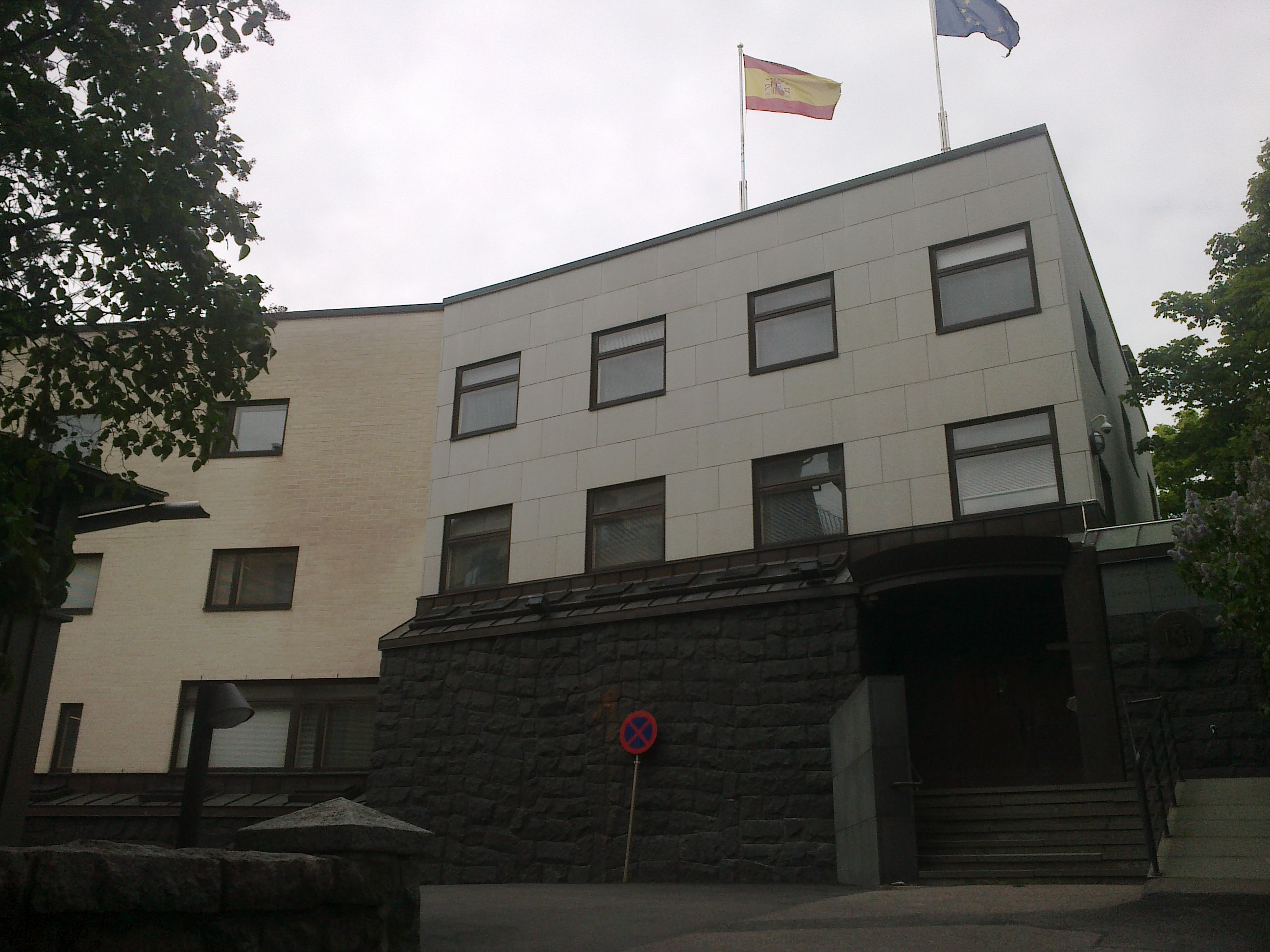 The Spanish Embassy in Helsinki is located in Kaivopuisto.